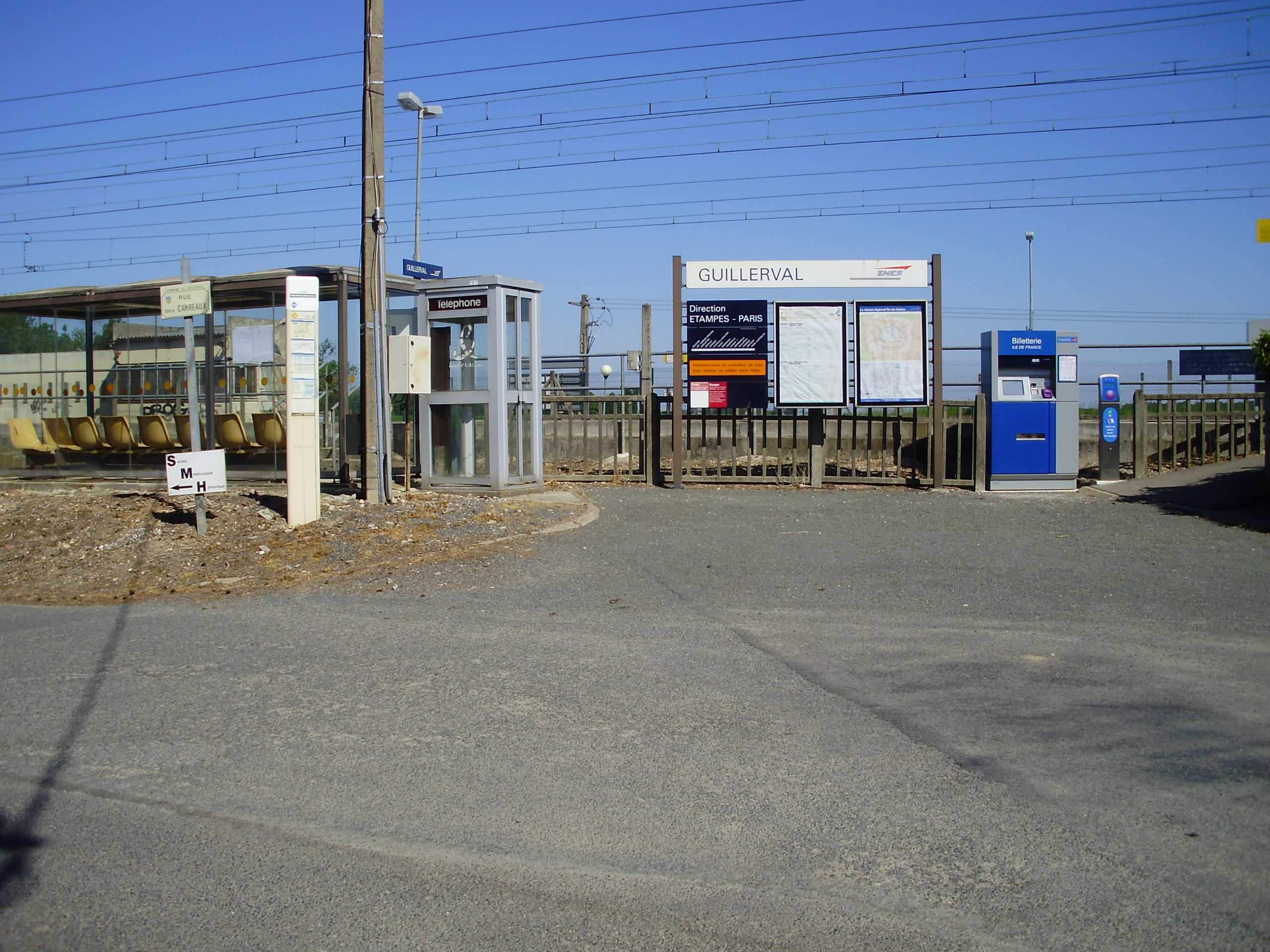 Guillerval station, Essonne, France (side "platform to Paris")